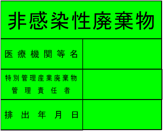 Biohazard symbol on the trush box or the wastes not infectious in Japan